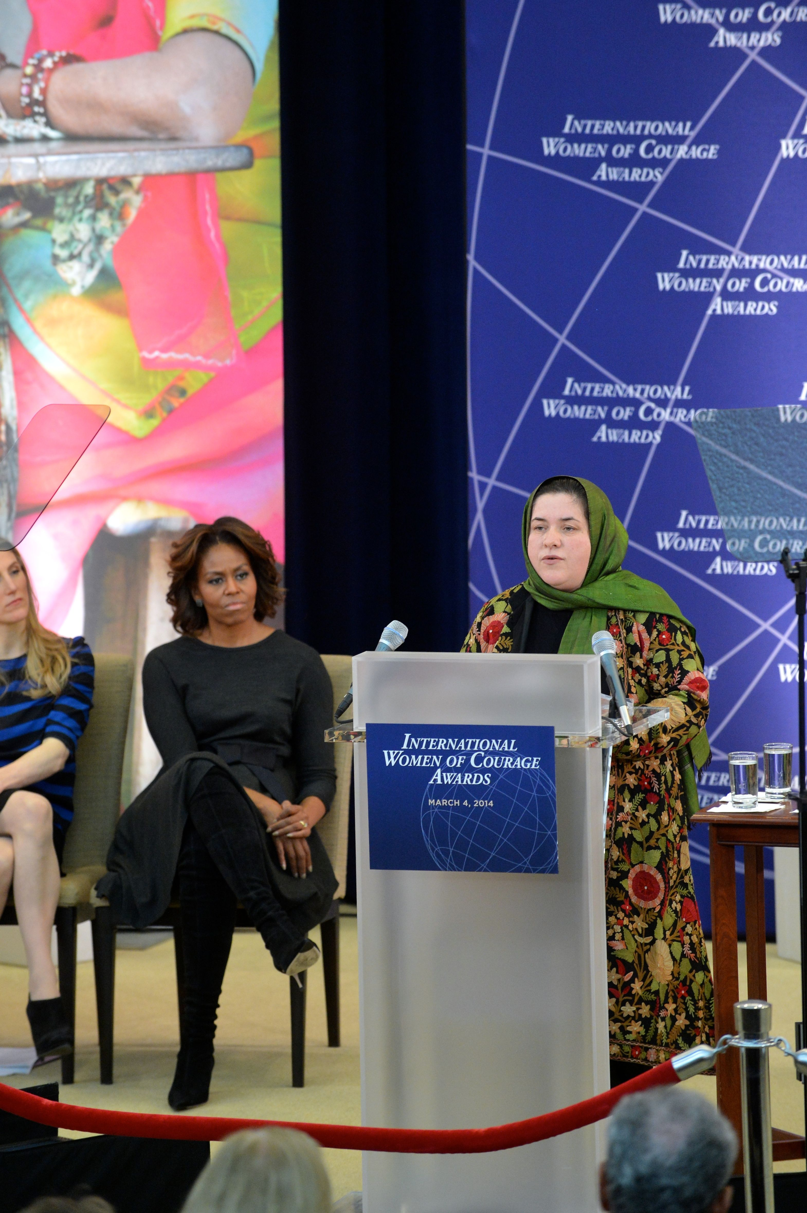 With First Lady Michelle Obama looking on, 2014 International Women of Courage Awardee Dr. Nasrin Oryakhil, Director of Malalai Maternity Hospital in Kabul, Afghanistan, delivers remarks at the 2014 Secretary of State’s International Women of Courage Award Ceremony at the U.S. Department of State in Washington, D.C., on March 4, 2014. [State Department photo/ Public Domain]